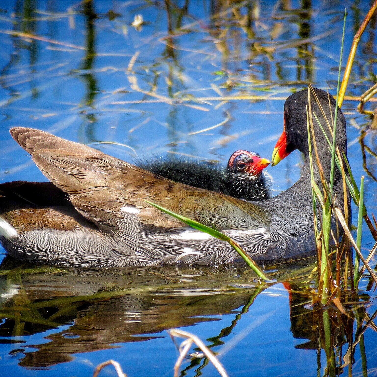 Common Gallinule adult feeding baby just days old. Taken in Apollo Beach, Florida by Mitzi Cloud.